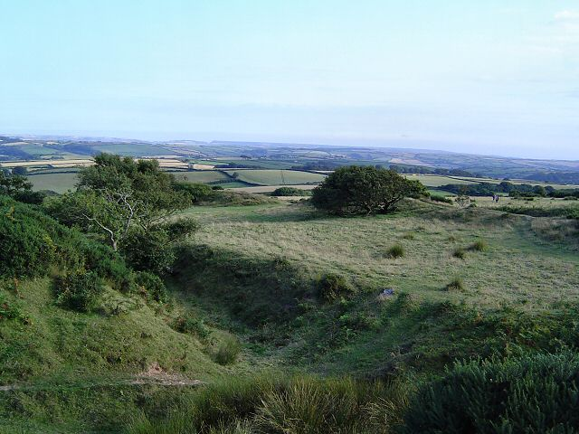 Blackdown Rings - South Devon